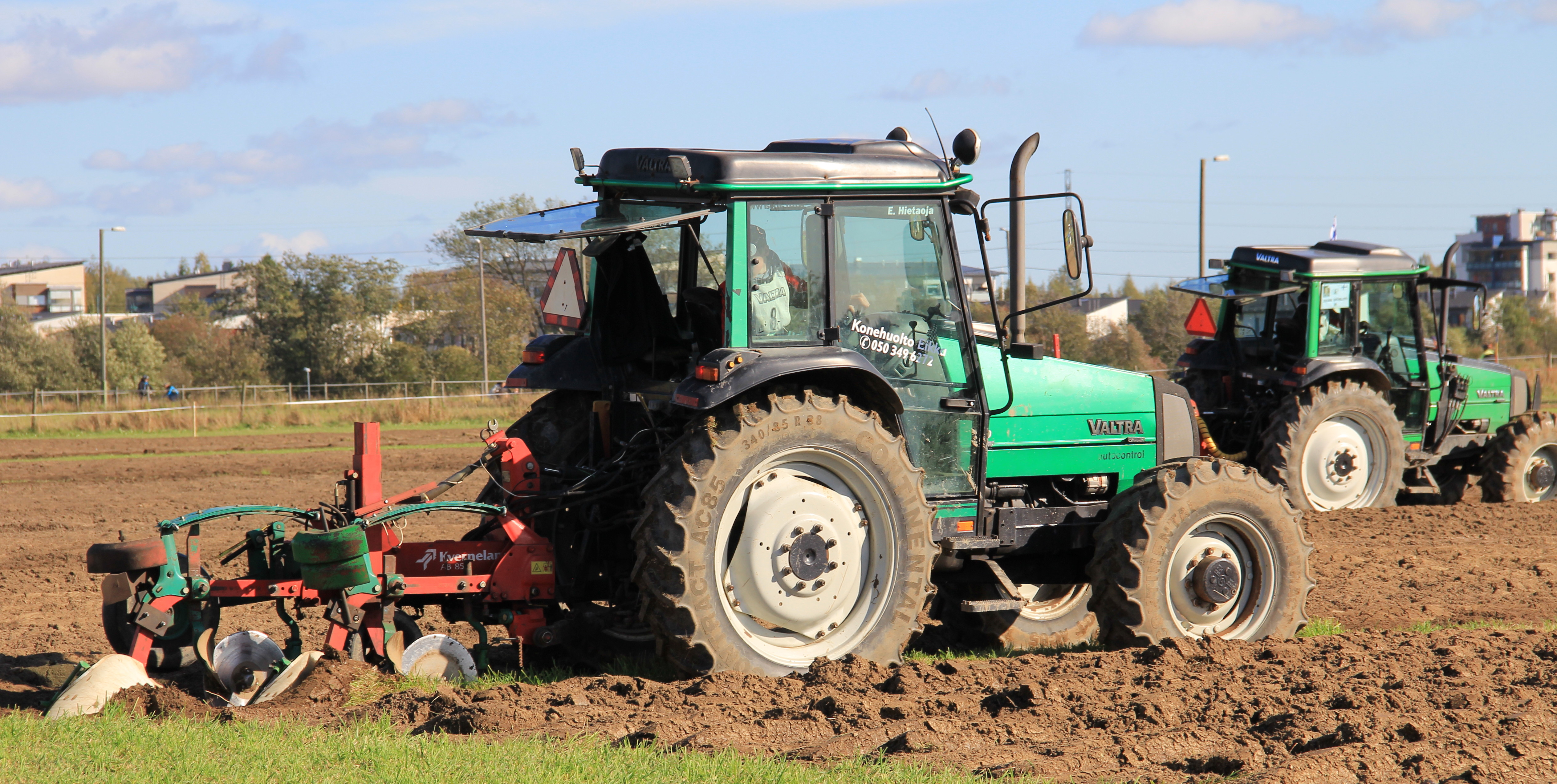 Tractor ploughing contest. National championships 2014 in Finland, Haltiala, Helsinki, Finland. Day two, conventional grassland ploughing. - Jarkko Hietaoja, Valtra 900 tractor with Kverneland AB 85 ploughs (According to the competitors numbertag and result list).